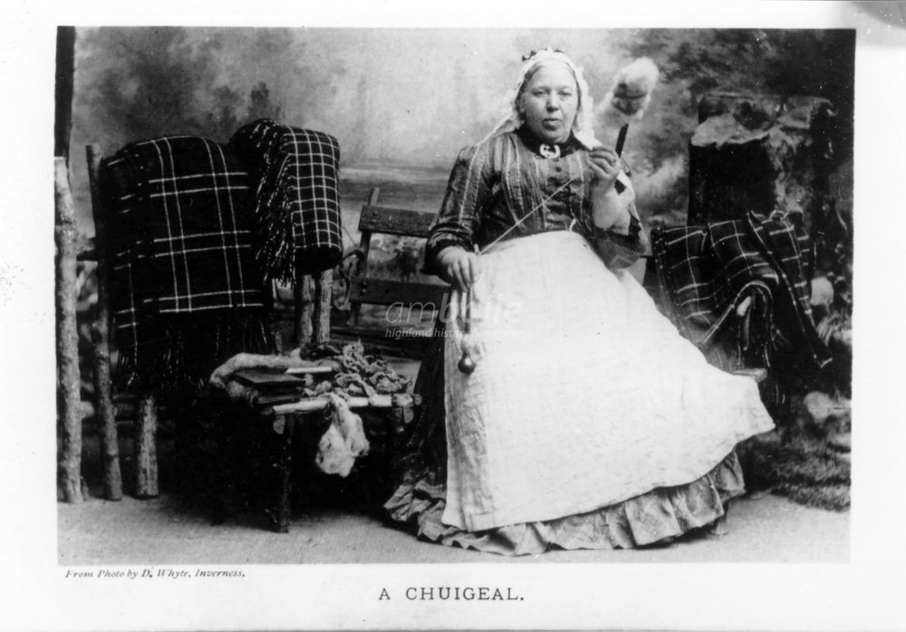 Photograph of Mairi Mhor with her spinning whorl